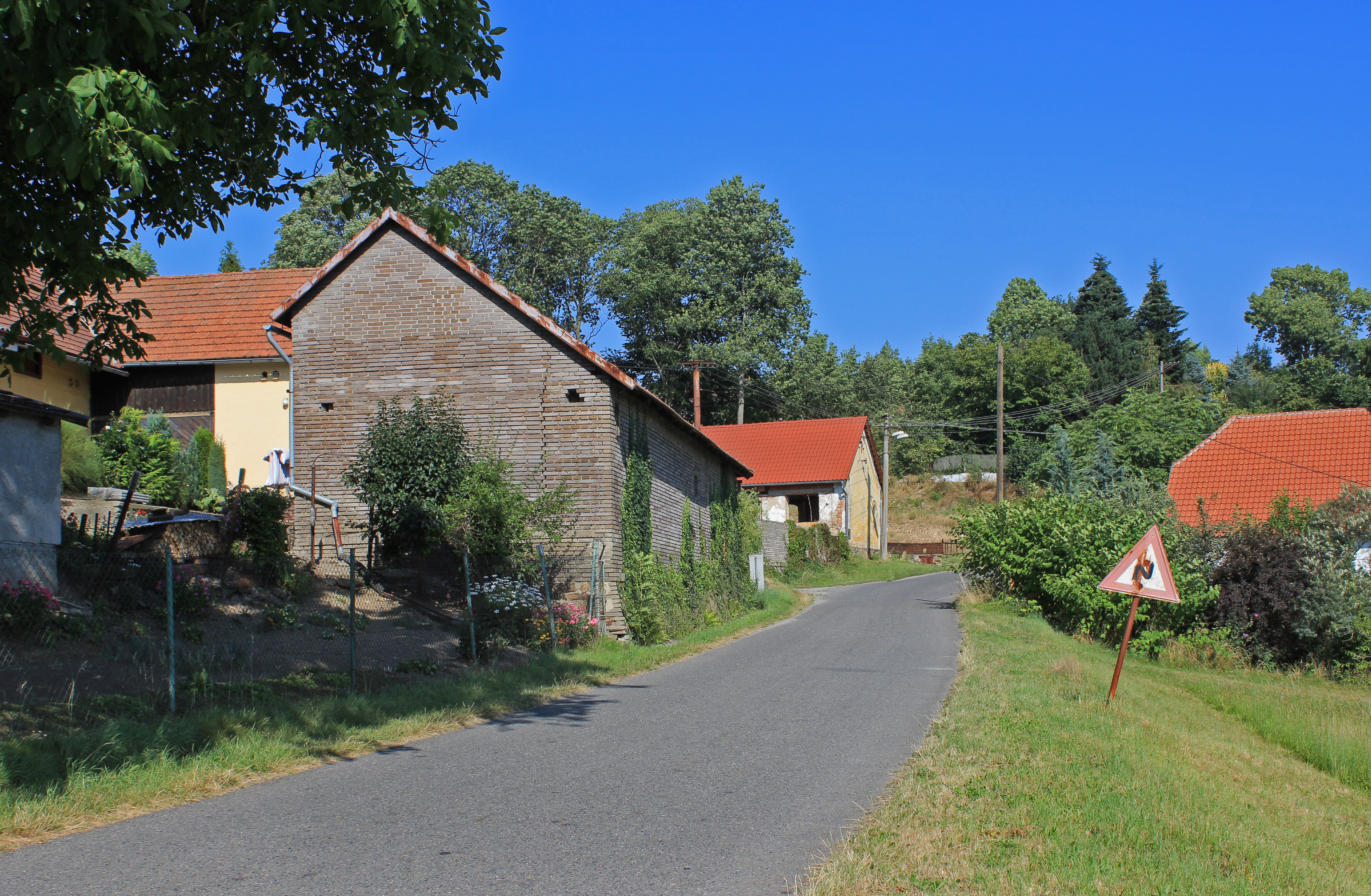 Main street in Jiříkovec, part of Heřmaničky, Czech Republic.